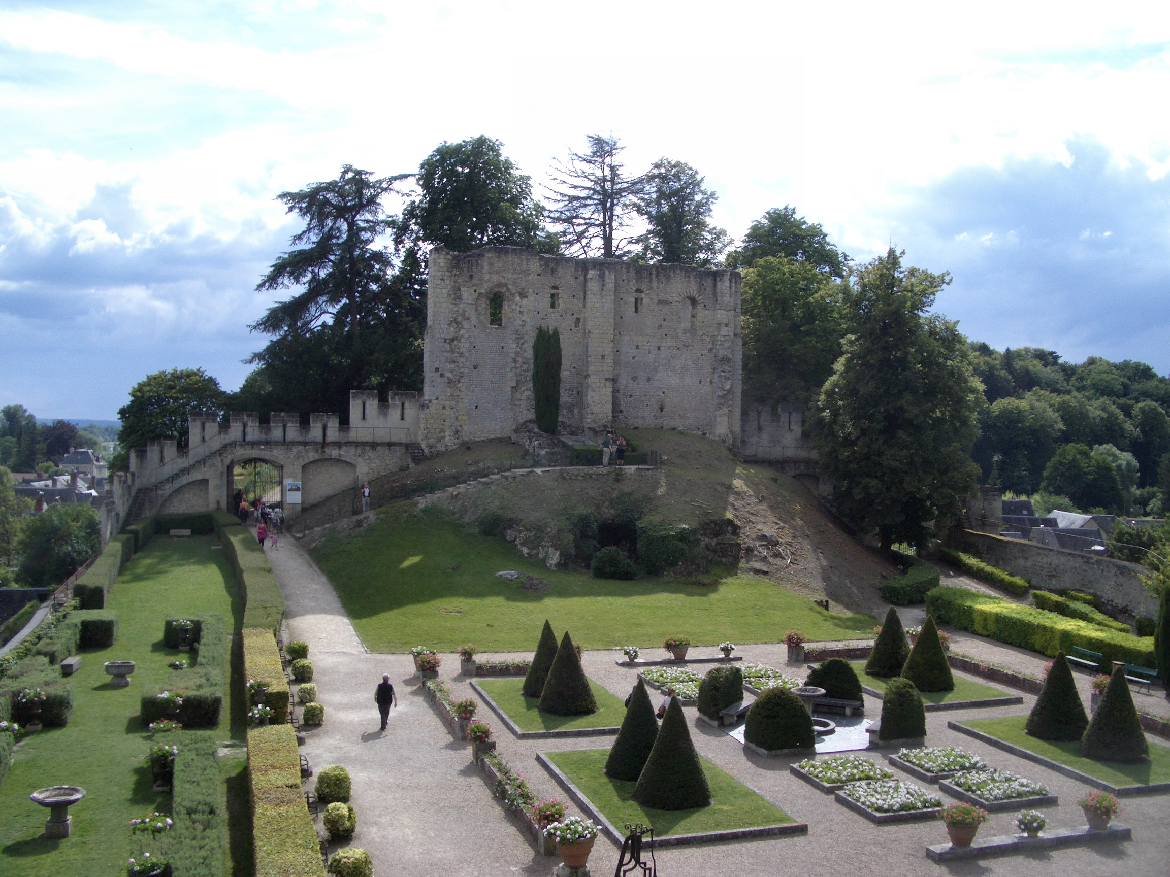 The château de Langeais, ruin of the donjon